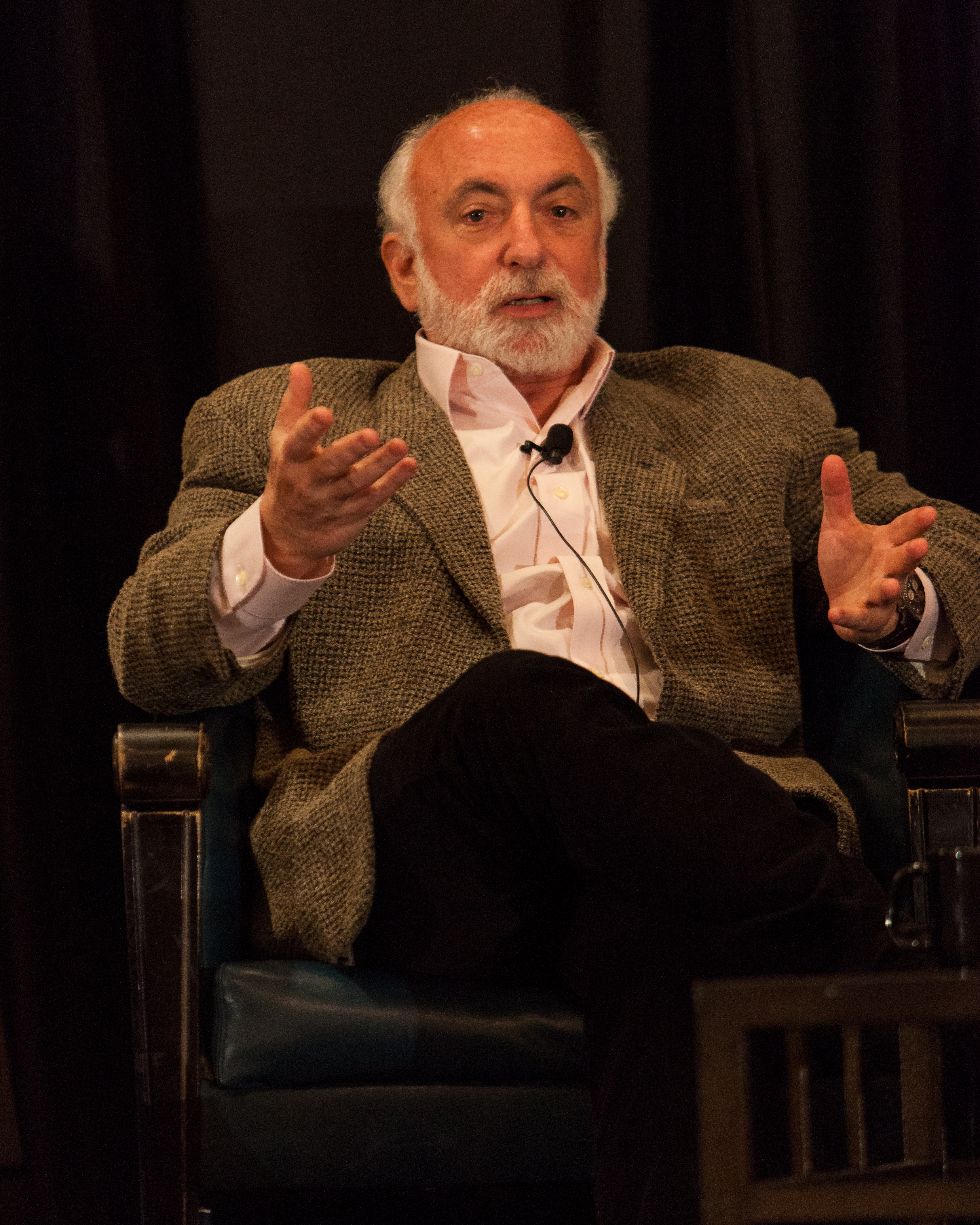 Models for Change Research and the Law Panel